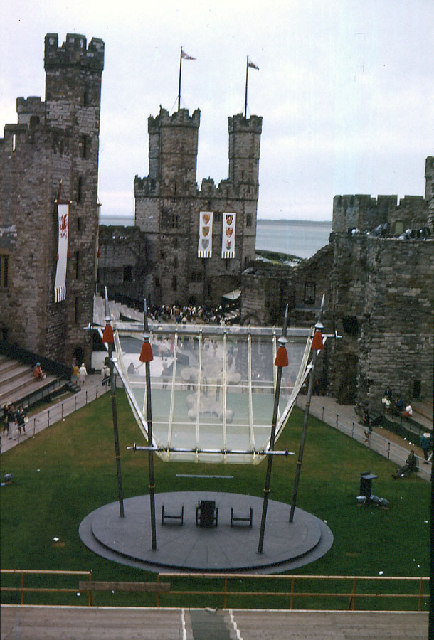 Caernarfon Castle 30 June 1969. The day before the Investiture of the Prince of Wales. Looking west, with the Menai Straits in distance.